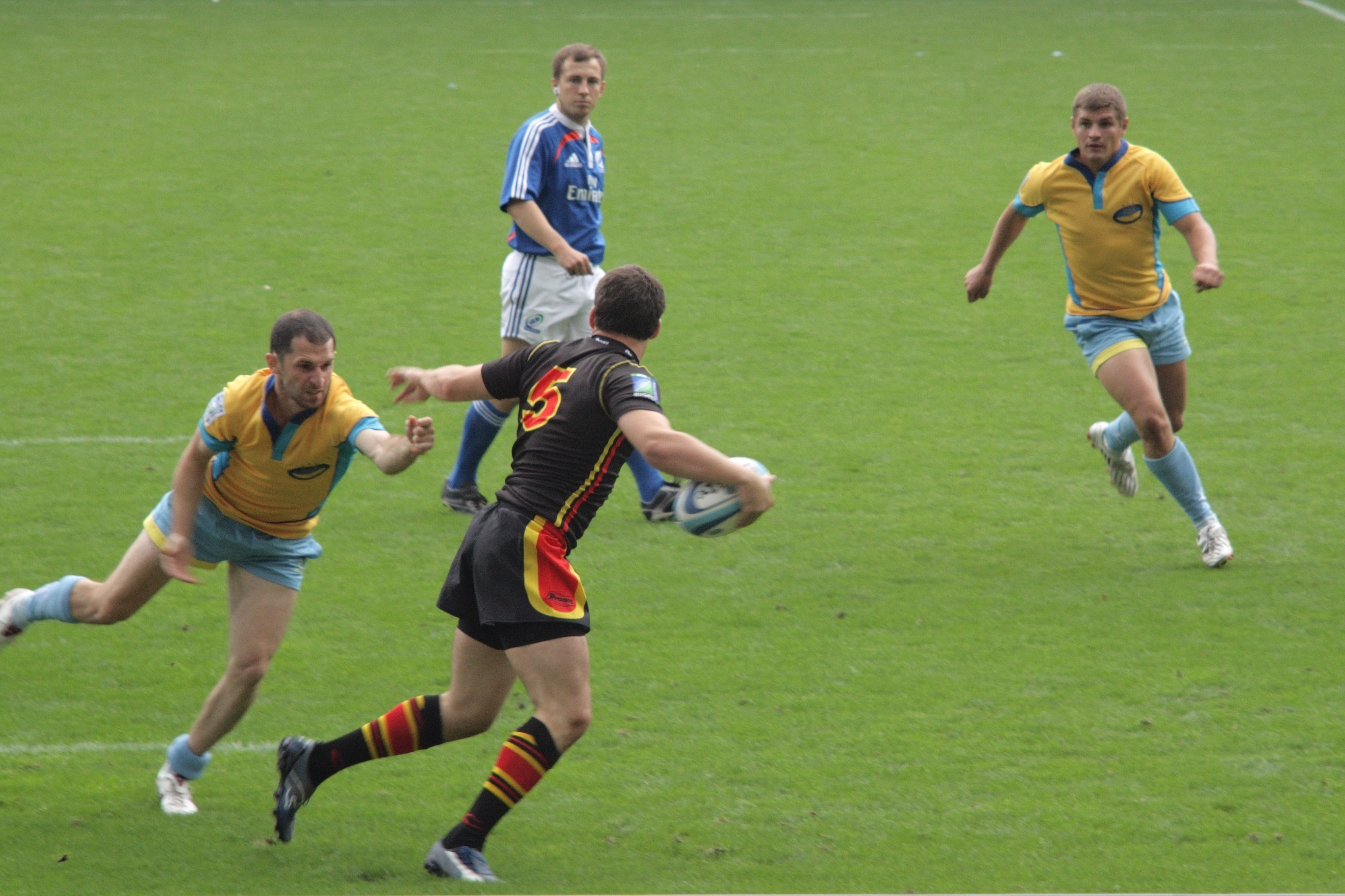 European Sevens 2008 (Hannover Sevens) tournament in Hannover, Germany. Fourth game in group B: Ukraine vs Belgium. Kevin Williams avoiding a tackle before scoring the first try for the Belgian team. Ukraine won the game 22:12.